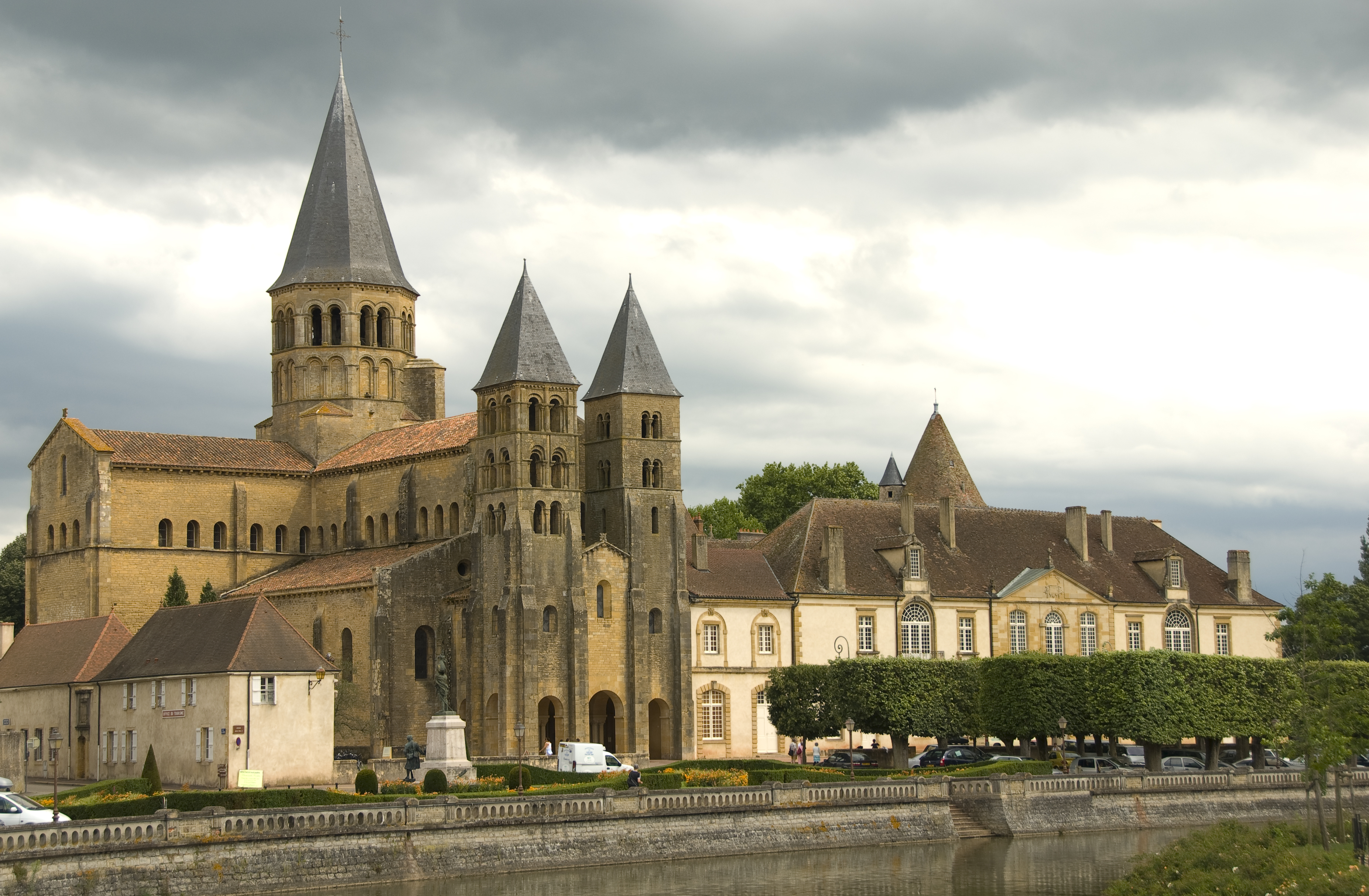 Basilica of the Sacred Heart, Paray Le Monial, Saône-et-Loire, Burgundy, France